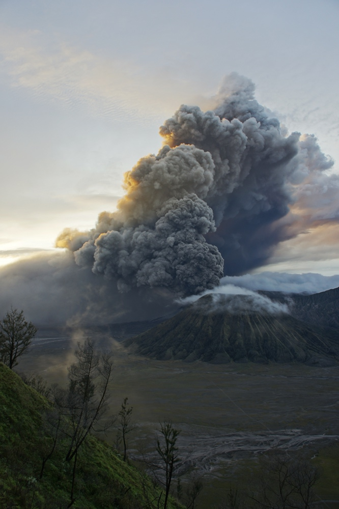 The eruption of the volcano Mount Bromo, Indonesia January 22, 2011 at 5:30 am, shortly after sunrise. Bromo volcano crater itself is not visible, hidden behind the volcano Batok. (The original image size is 14 megapixels.)